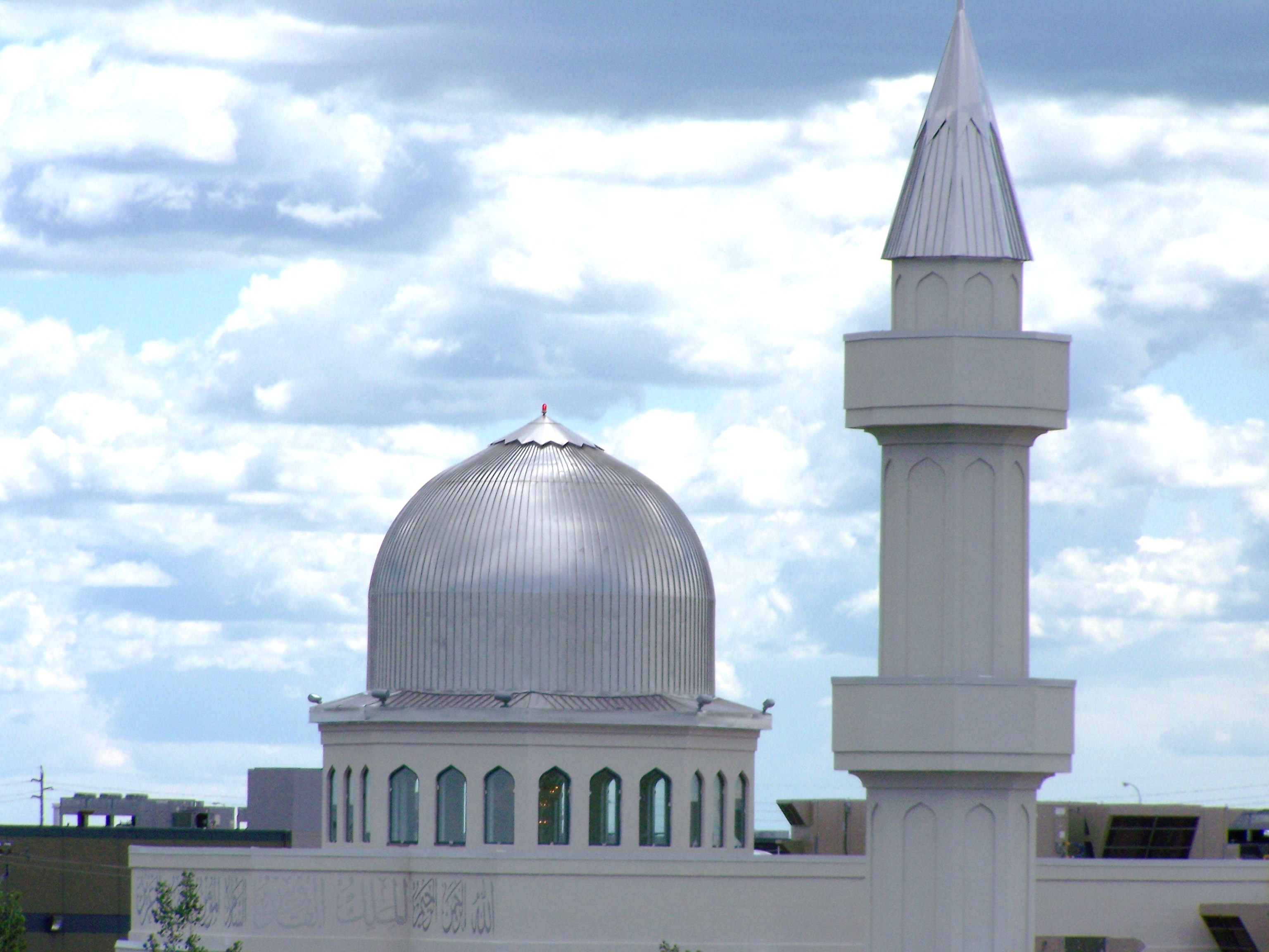 The Baitunnur mosque of the Ahmadiyya Muslim Community located at 4353 54 Avenue NE, Calgary, Alberta, Canada. The mosque was officially opened on July 5, 2008 and this picture was taken on July 11, 2008 from atop a hill in Prairie Winds Park.